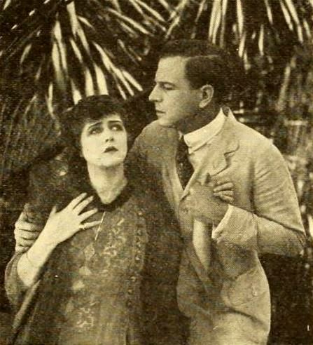 Still from the American drama film The Woman Thou Gavest Me (1919) with Katherine MacDonald and Milton Sills,n page 1821 of the June 21, 1919 Moving Picture World.